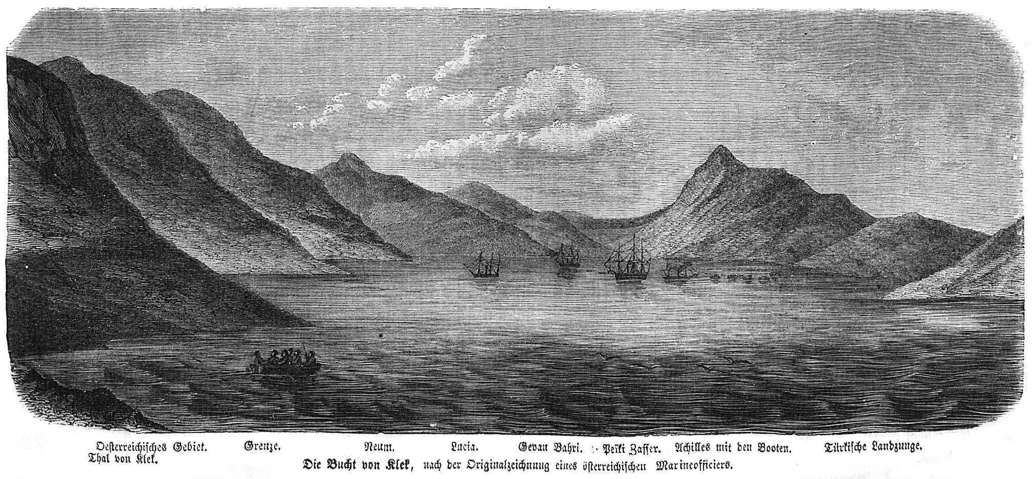 caption: "Thal von Klek. Oesterreichisches Gebiet. Grenze. Neum. Lucia. Gevan Bahri. Peïki Zaffer. Achilles mit den Booten. Türkische Landzunge. Die Bucht von Klek, nach der Originalzeichnung eines österreichischen Marineofficiers."